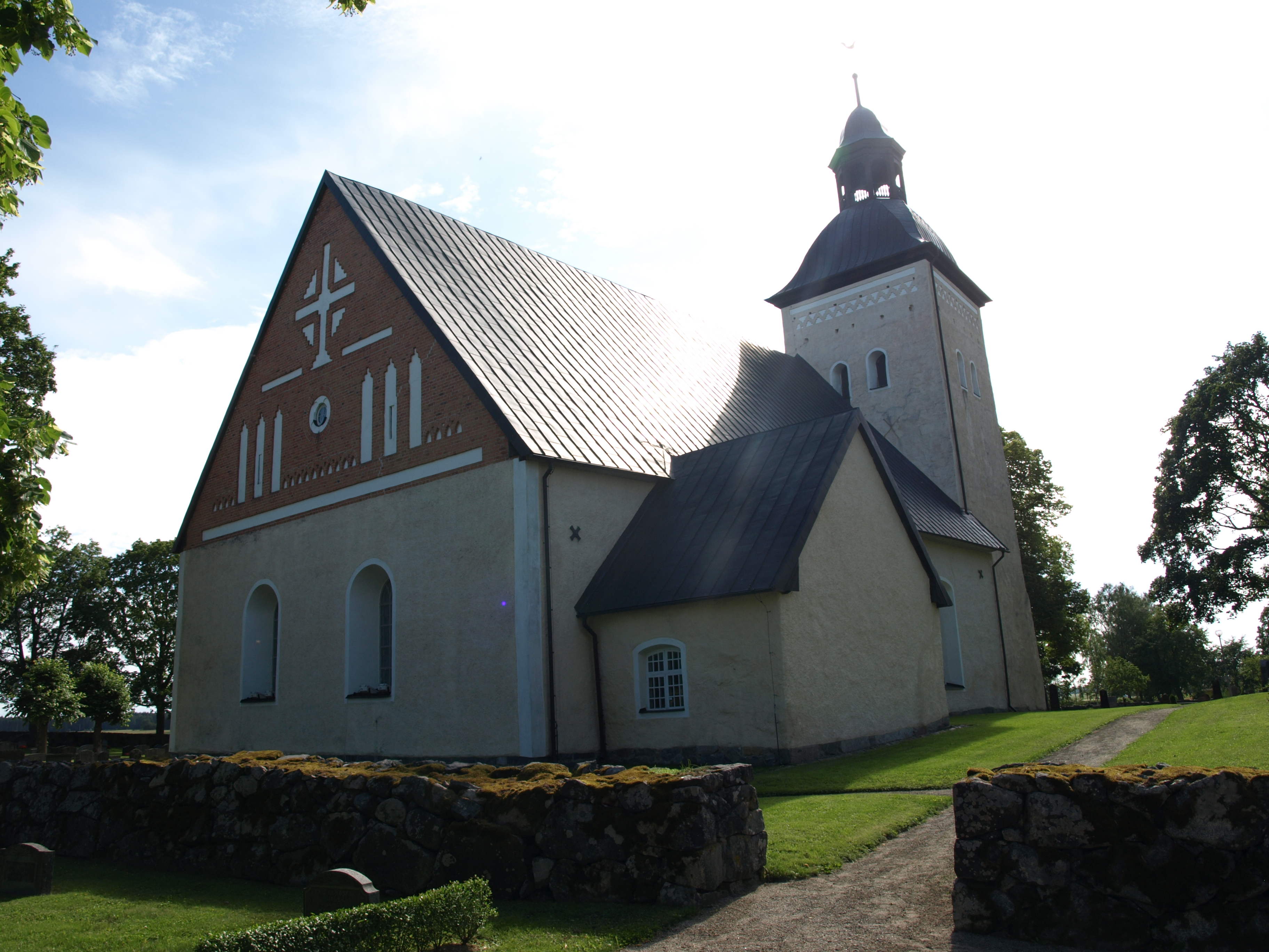 Tillinge church, Uppland, Sweden